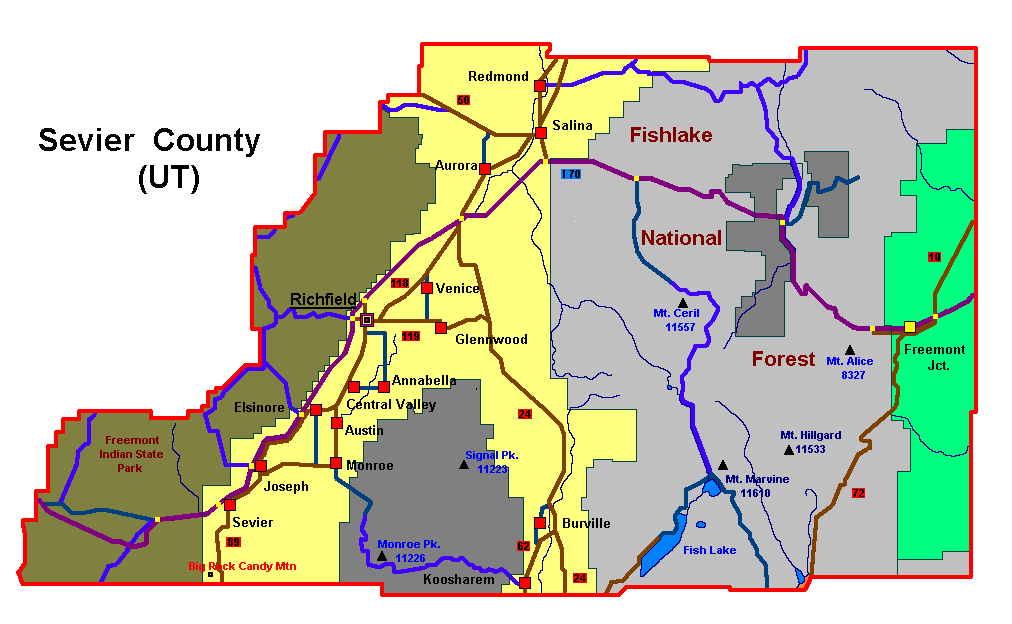 Sevier County (UT) details, selmade graphic by R.Blauert Dk4hb